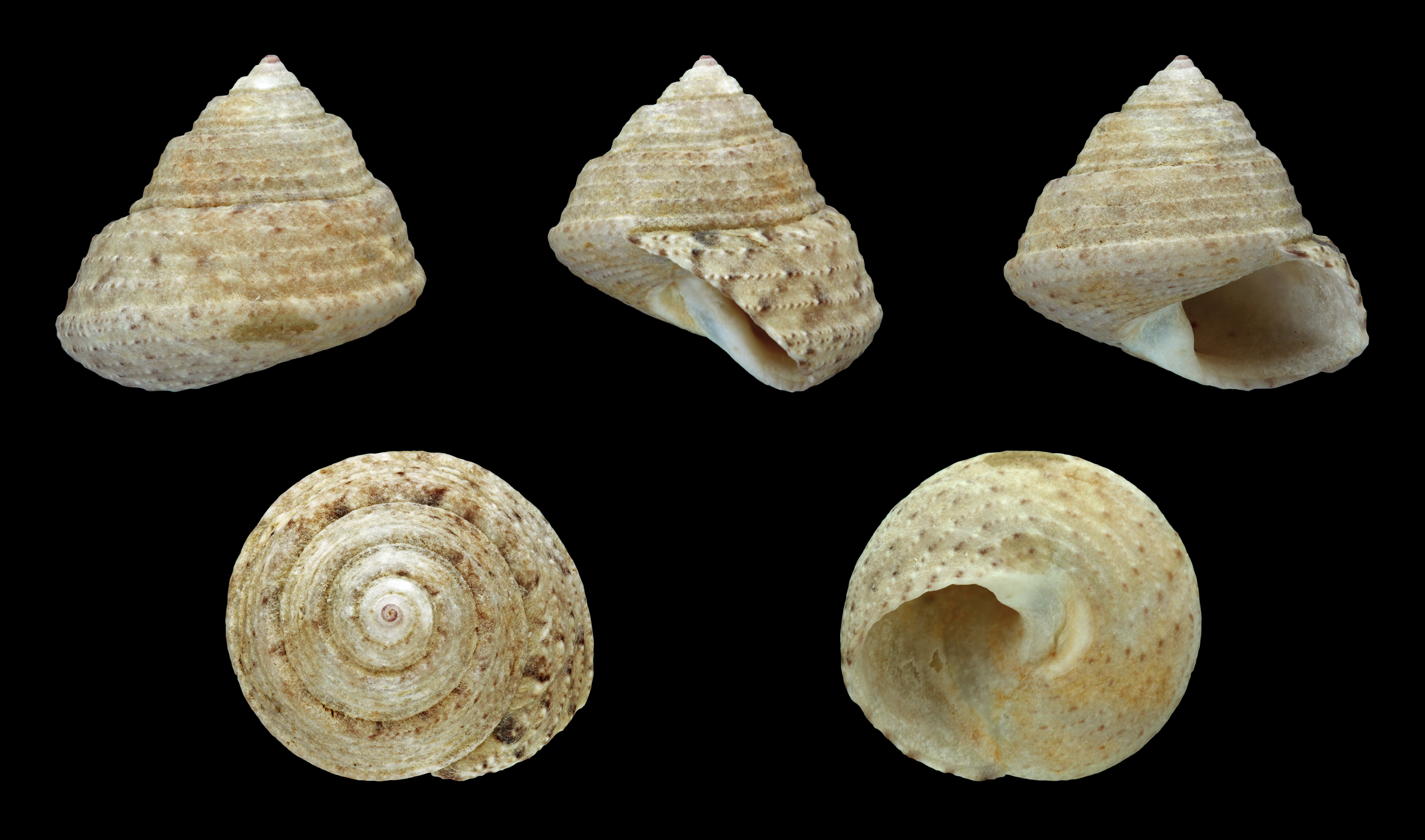 Whitish Gibbula; Diameter 1.6 cm; Originating from Port Leucate, France; Shell of own collection, therefore not geocoded.